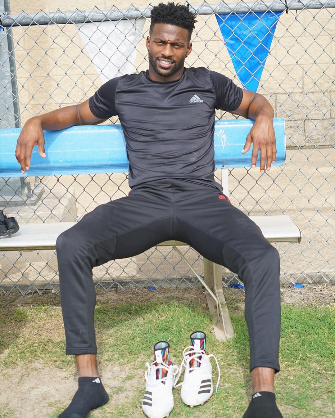 Emmanuel Sanders in May 2018